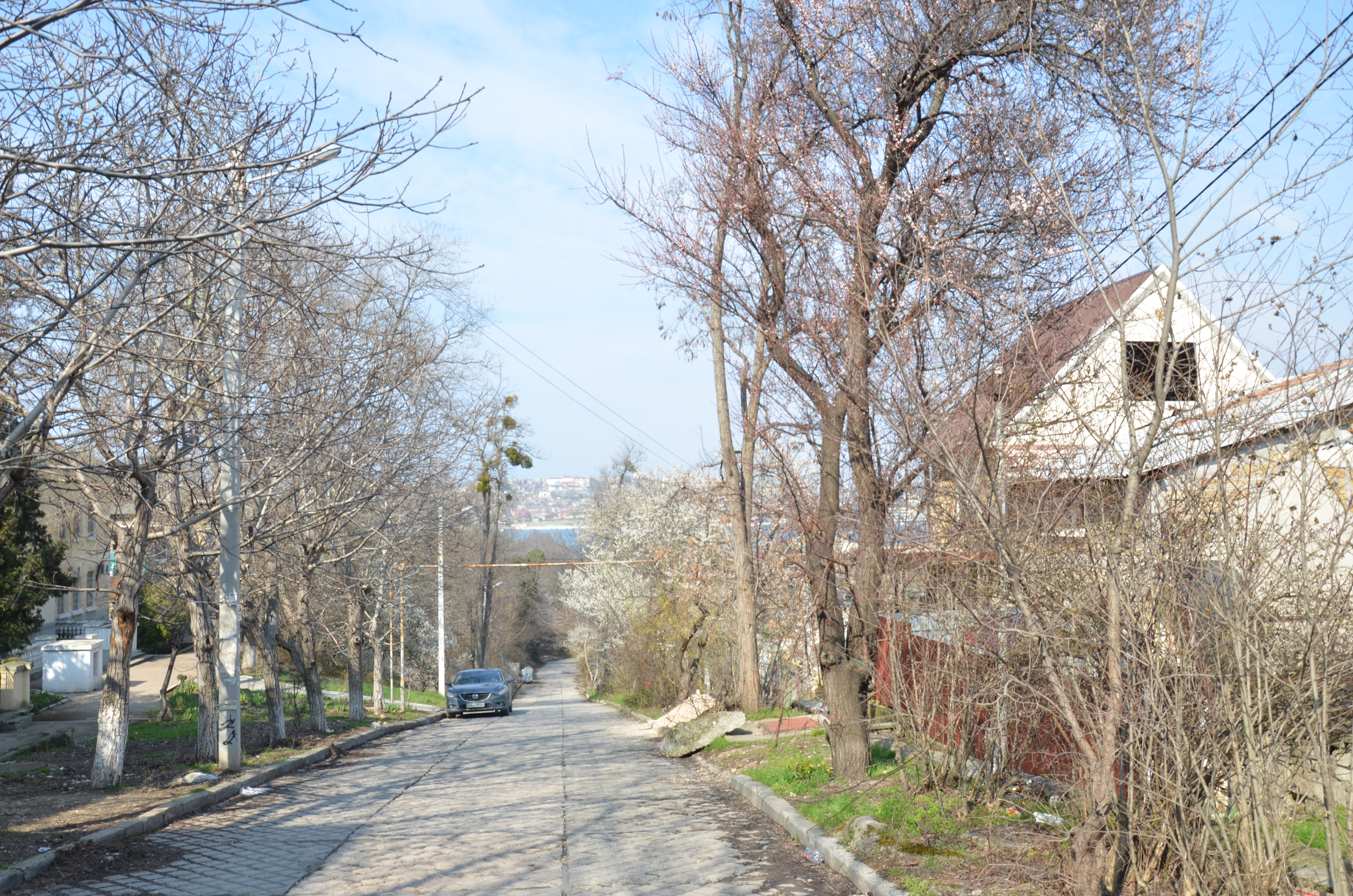 Apollonova Gully